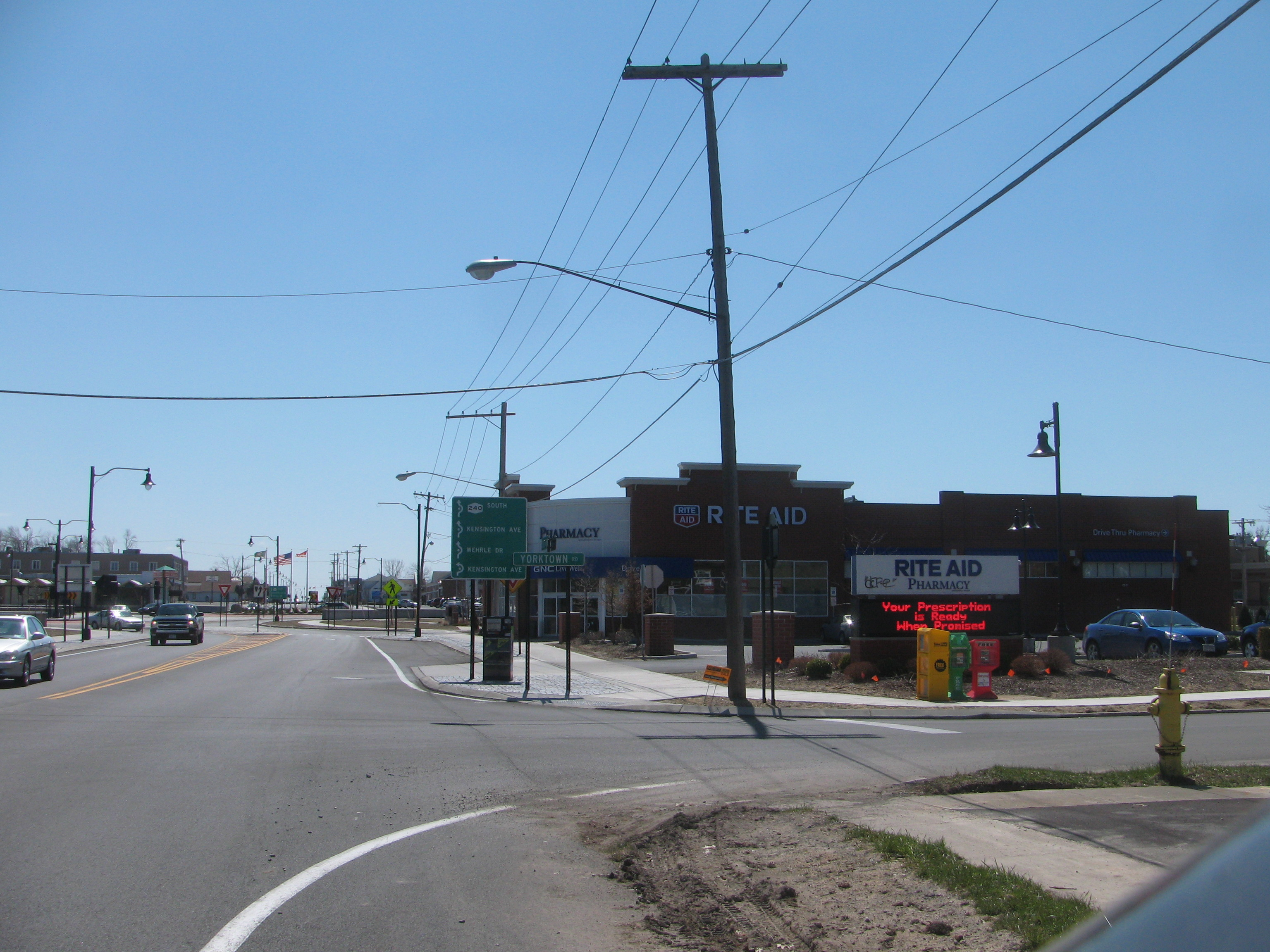 Rotaries along New York State Route 240